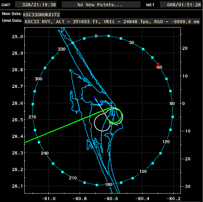 Landing path for Space Shuttle mission STS-129.